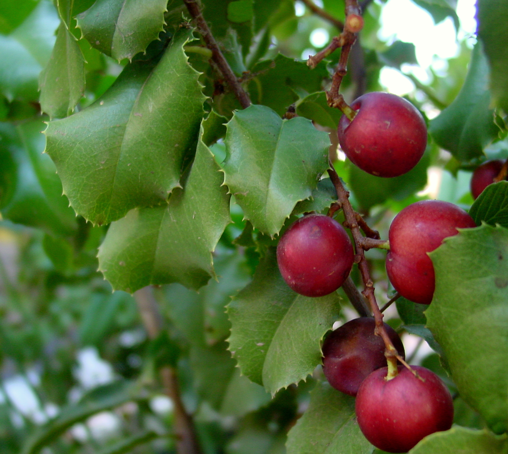 Description: Prunus ilicifolia fruit and foliage Author: Noah Elhardt